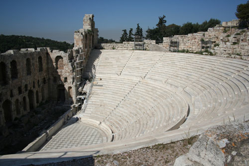 Ron Waller, personal photograph, Odeum of Herodes Atticus, (below and to the south-west of the Acropolis) a partially reconstructed theatre used each summer